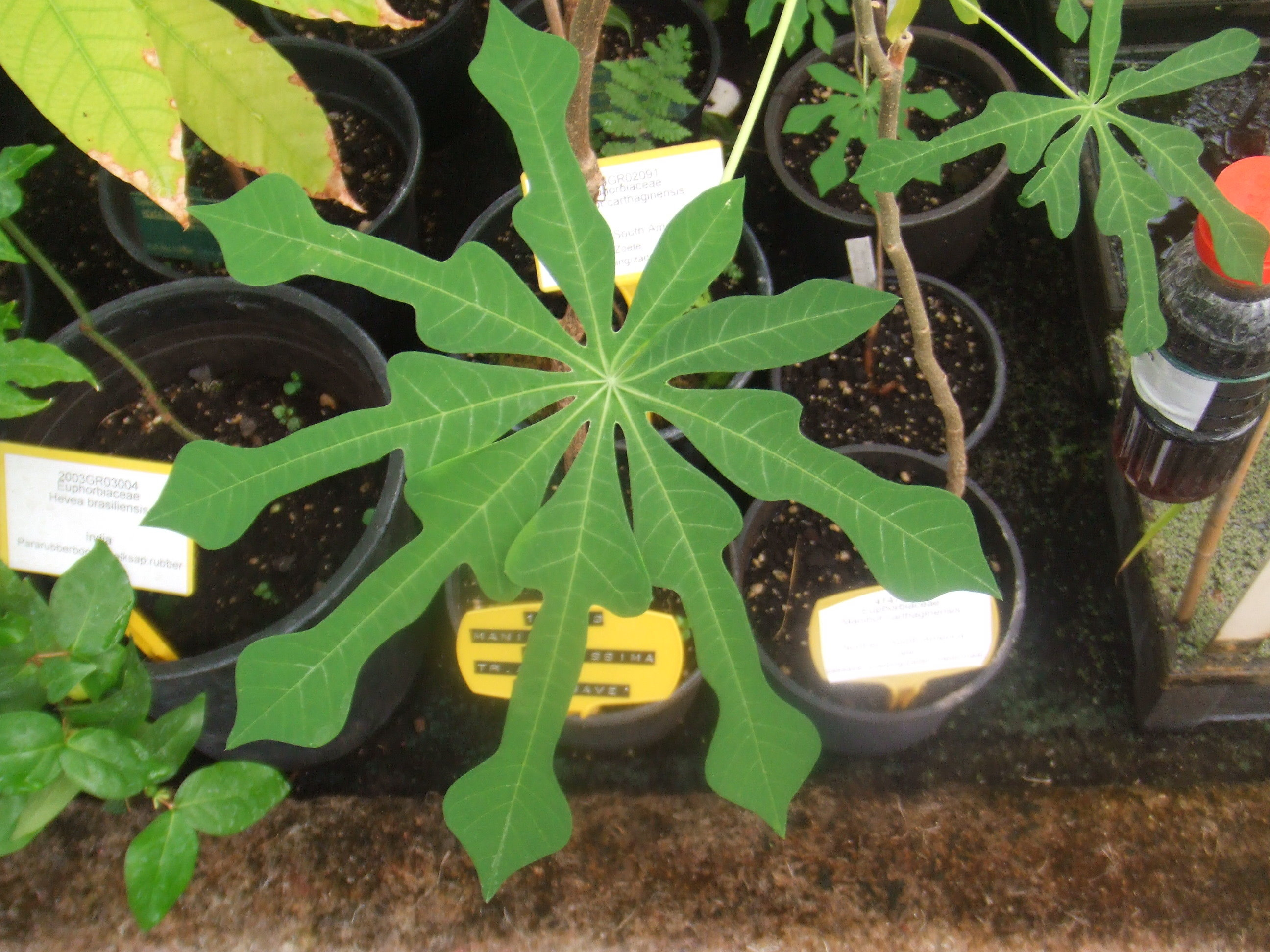 Manihot grahamii, picture taken at the Botanische tuin TU Delft in Delft, The Netherlands (incorrectly identified as M. esculenta)